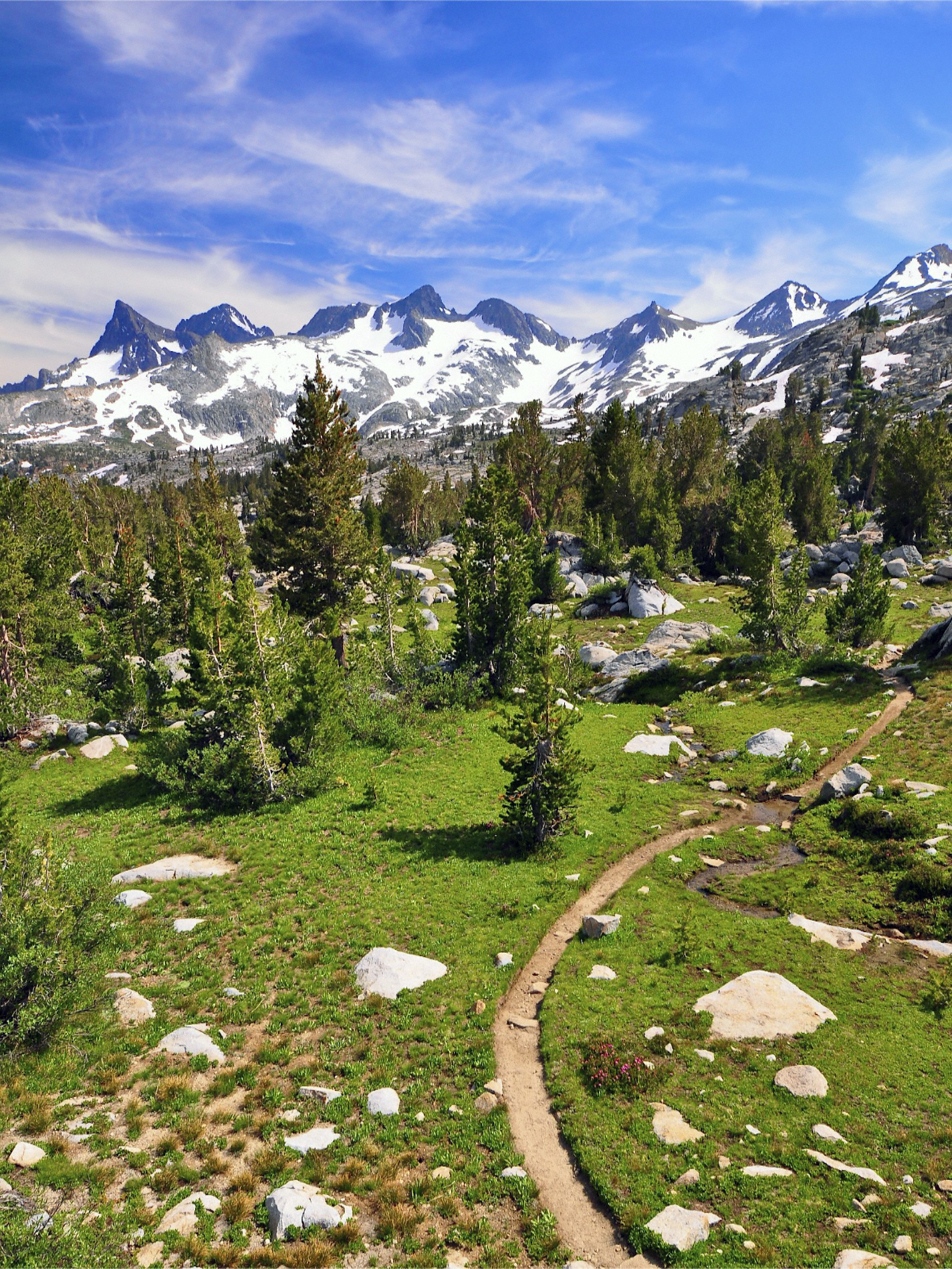 The Ritter Range run down the spine of Ansel Adams Wilderness from Yosemite's Mount Lyell to the Minarets west of Mammoth. This photograph was taken between Rush Creek and Donahue Pass. I found a big boulder I could stand on, and shot this vertical - the Pacific Crest Trail meandering through the scene.